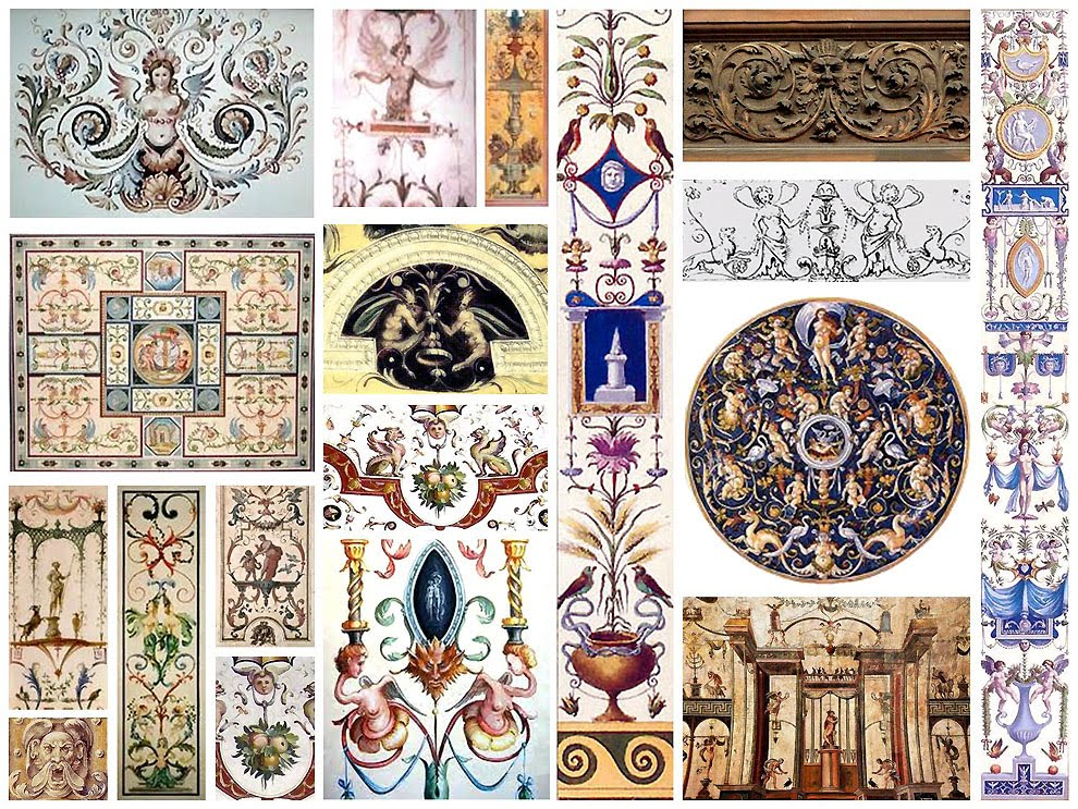 Renaissance Grotesques: Assorted Motifs and Arrangements